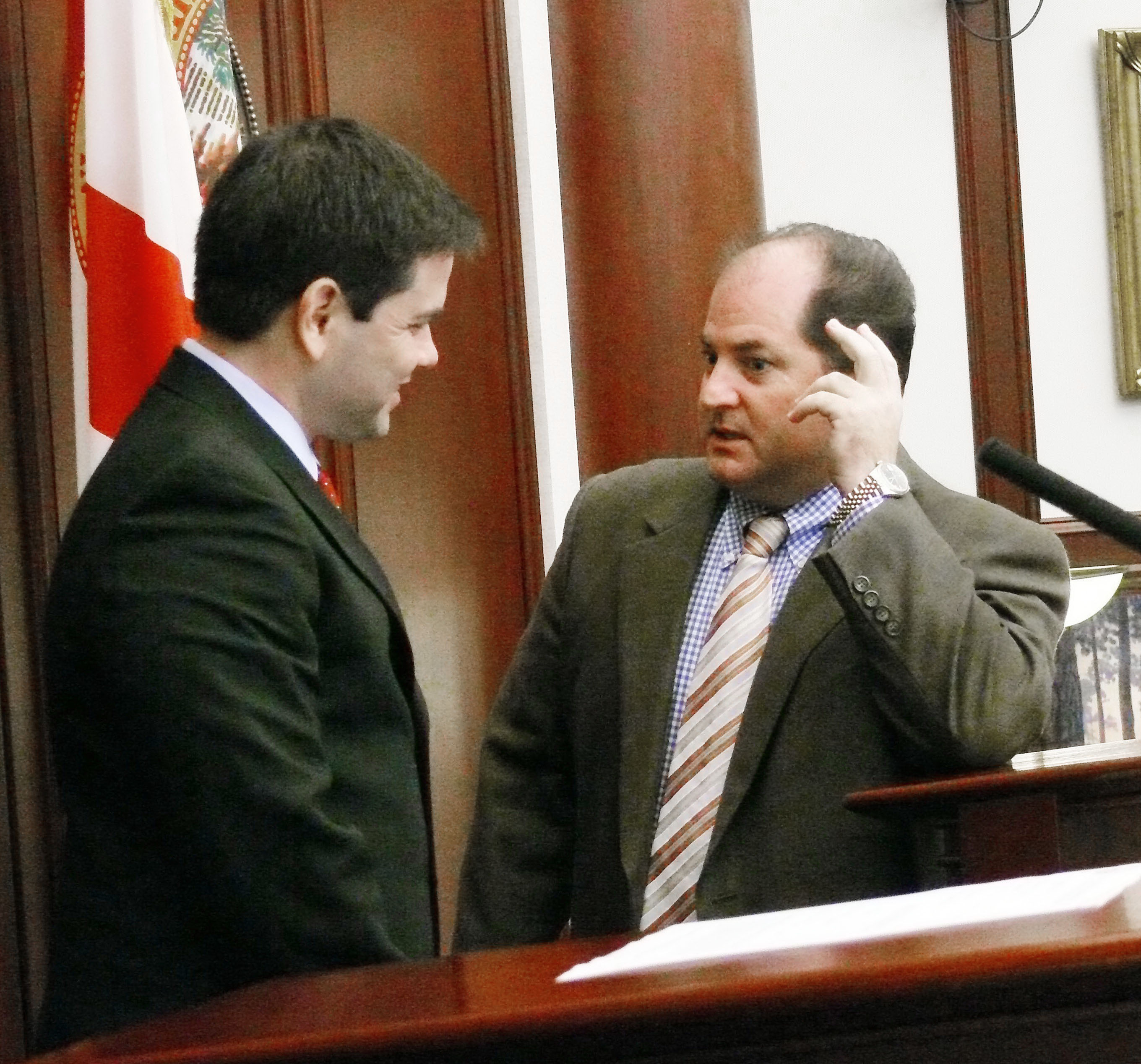 Rep. Baxter Troutman, R-Winter Haven, right, confers with Speaker Marco Rubio, R-Miami, left, on the House floor April 29, 2008, in Tallahassee, Florida